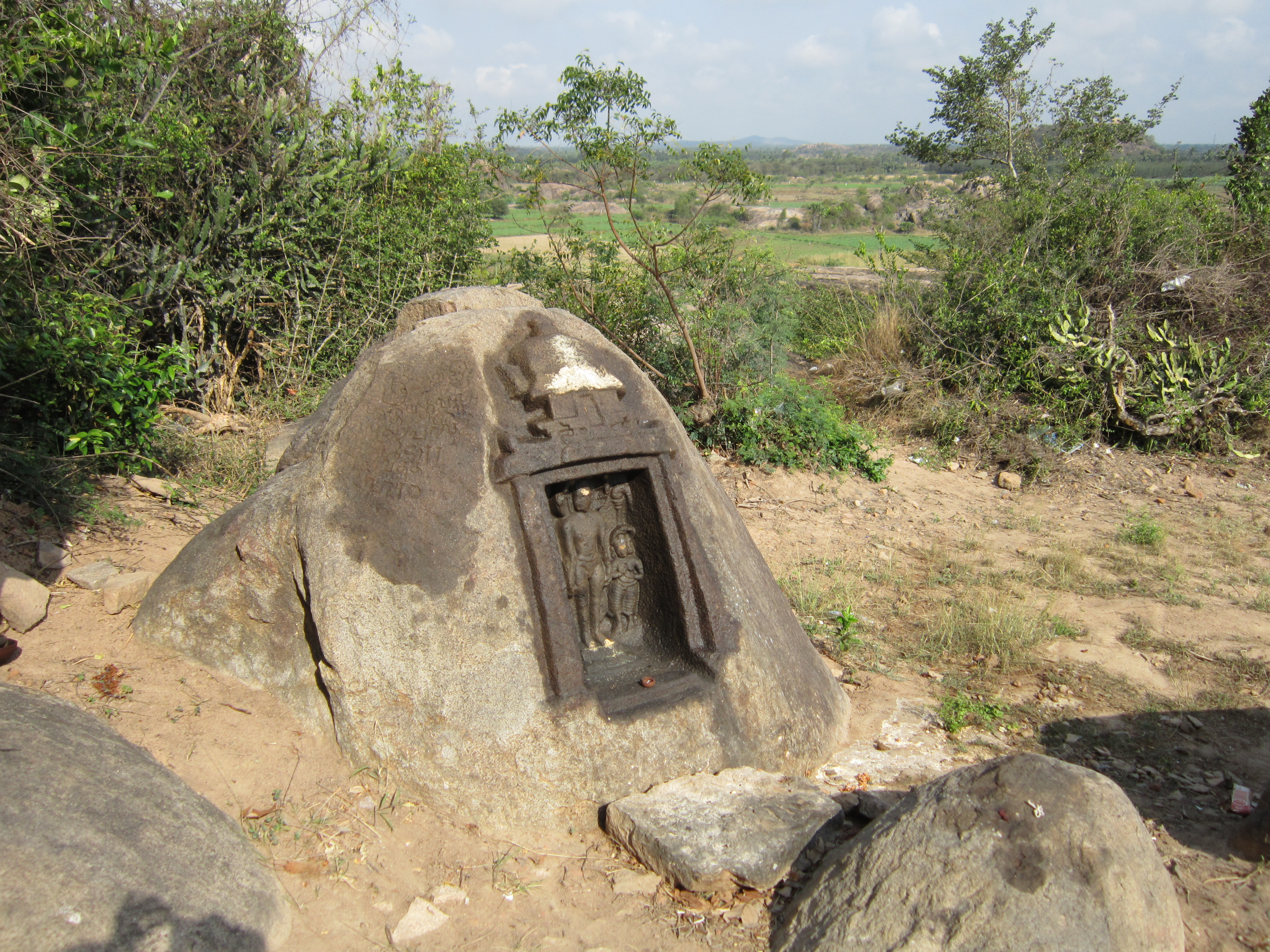 for wiki